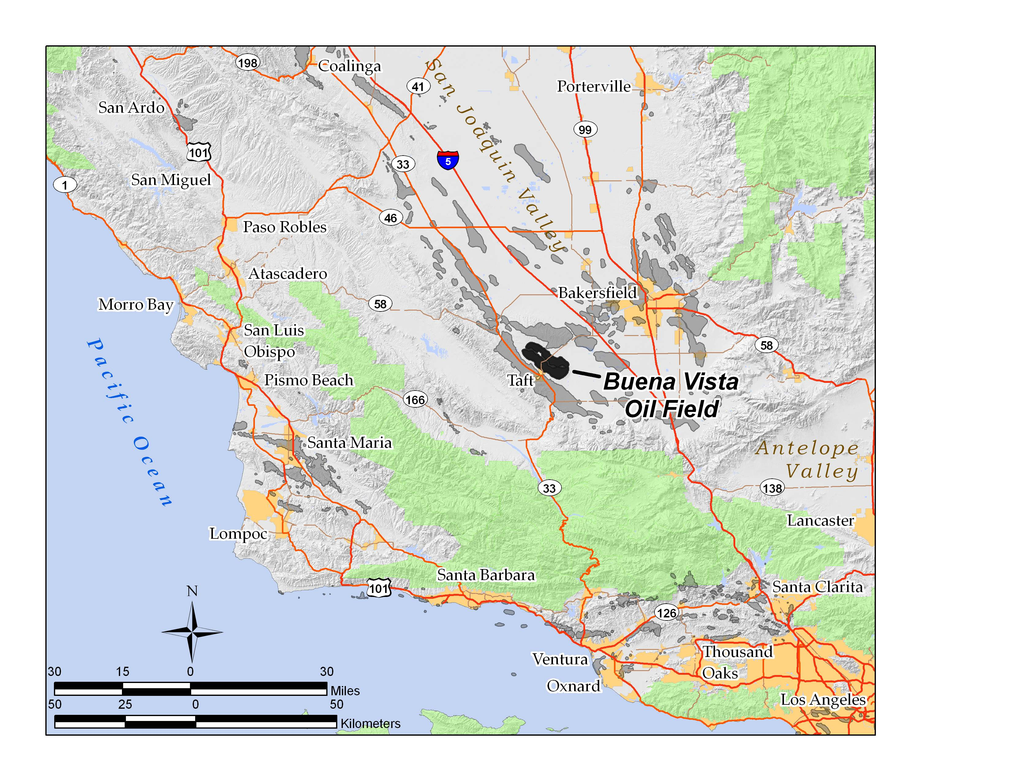 Buena Vista oil field, by User:Antandrus in ArcGIS 9.2; all data shown on this map is in the public domain (USGS, US Census, Dept of Conservation, etc.)